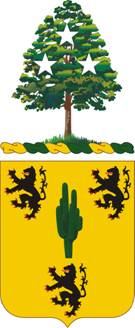 181 field artillery coat of arms